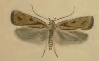 Stainton’s Natural History of the Tineina (1855–1873): Agonopterix atomella